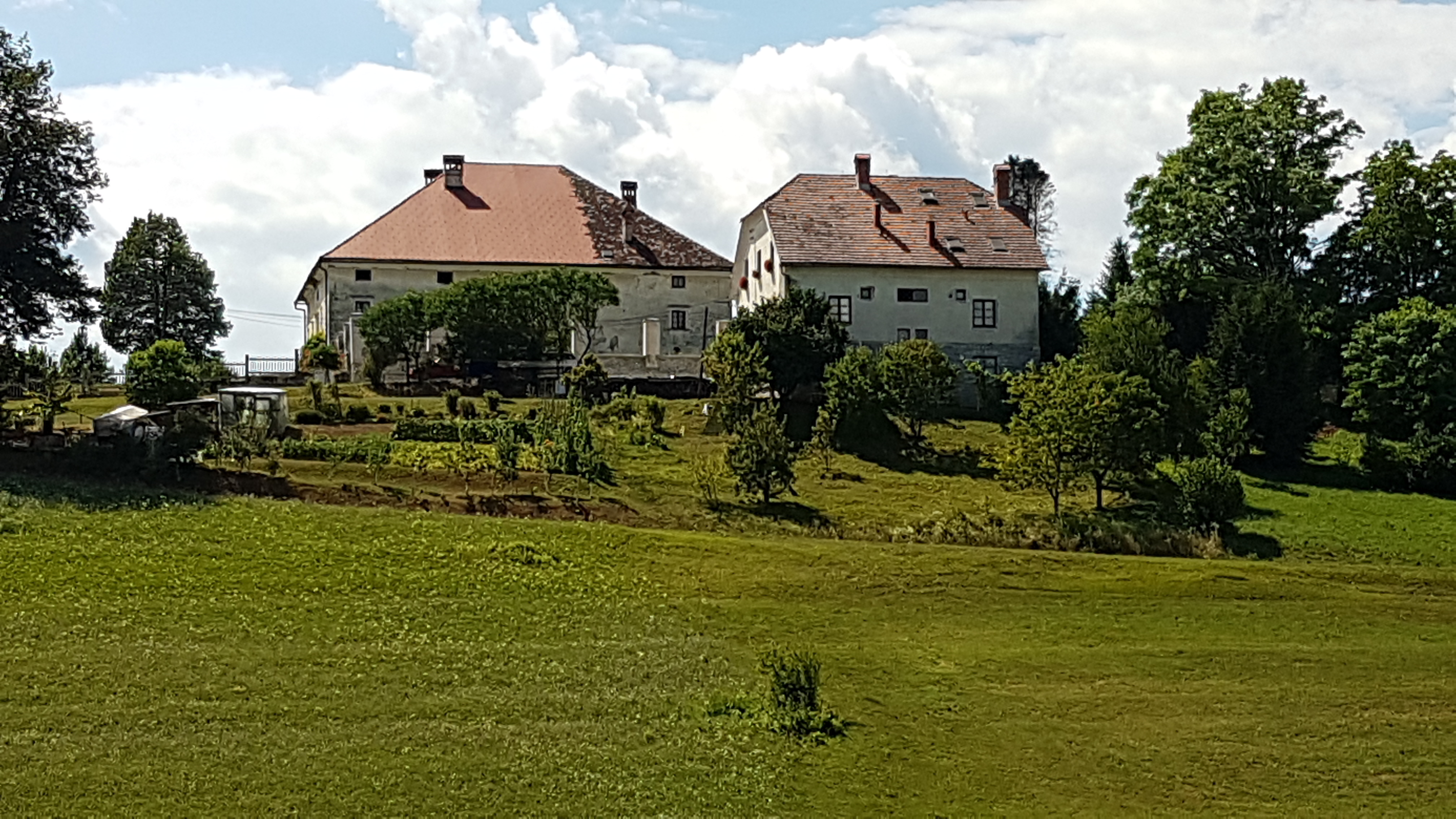 Mala Loka Mansion, picture taken from main road